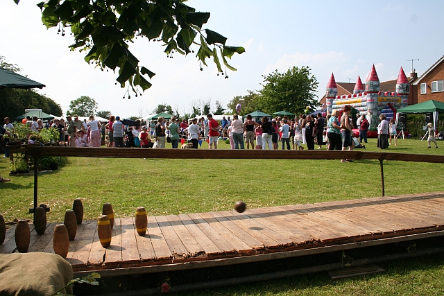 Longdon Village Fete The parishioners and visitors are gathered around a small arena for the dog judging whilst one young chap tries his hand at skittles and children bounce in the inflatable castle - England at its best!